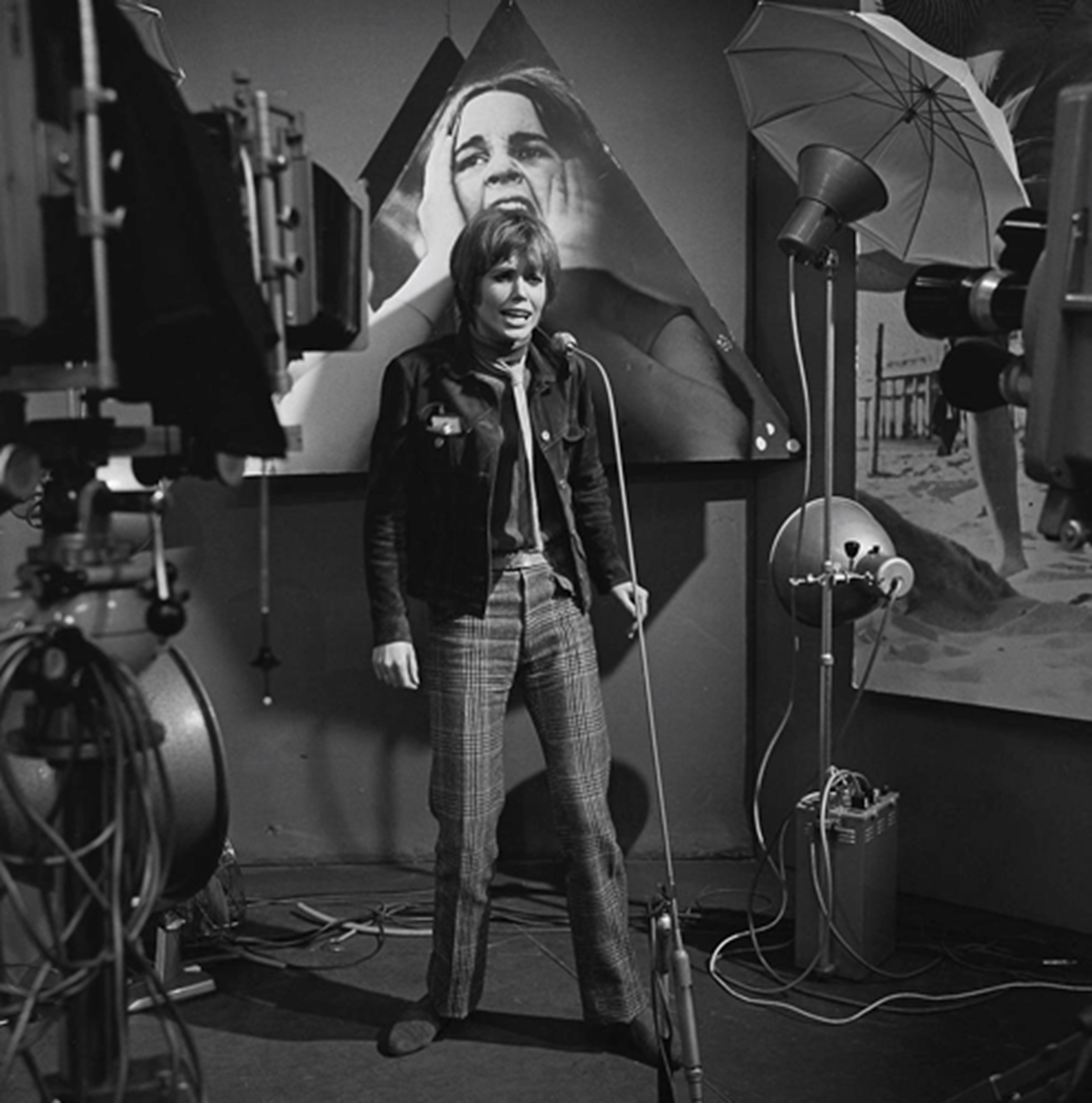 Dutch vocalist Loesje Hamel singing. Recording for Dutch TV programme Fanclub. Recorded 11 March 1966.